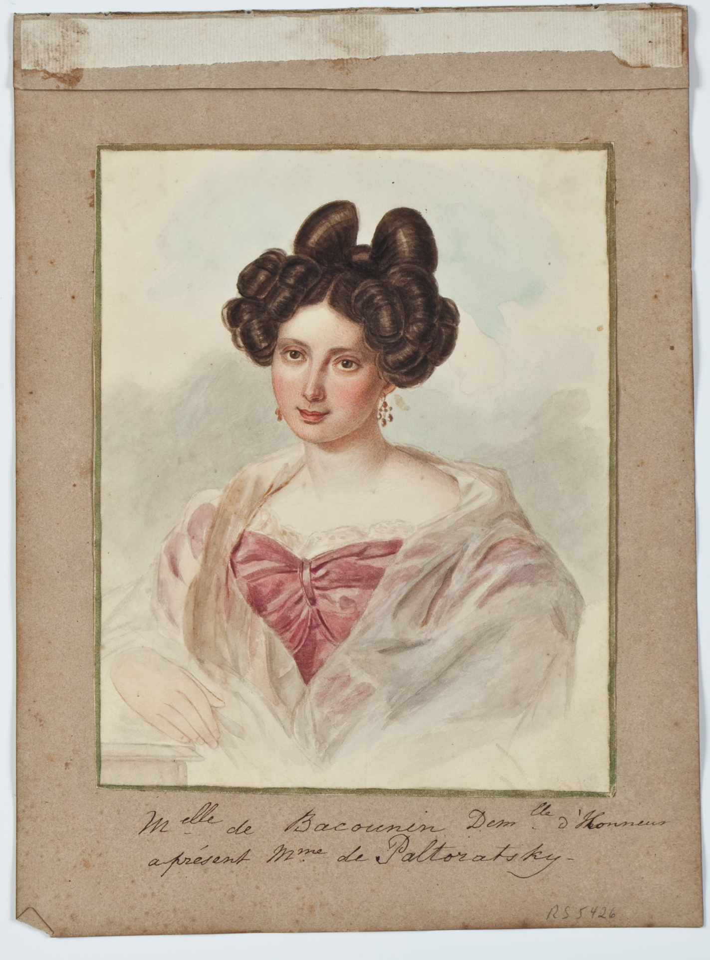 The Middleton Watercolor Album consists of a collection of 45 watercolor portraits bound in leather covers with neo-gothic embossing and a gilt bronze clasp in the same style. The album relates to the Middleton family of South Carolina, from which it descended until Hillwood purchased it in 2004. Williams Middleton—who was secretary to his father, Henry Middleton, the American minister to St. Petersburg from 1820 to 1830—assembled this album. The artist of many of the watercolors, most of which are unsigned, is likely Middleton's sister, Maria Henrietta, who studied painting during her years in St. Petersburg with her governess, Madame Mathes, who also painted miniatures. Two watercolors, including this portrait of the Countess Bobrinsky, are signed by the well-known Russian watercolorist Petr Sokolov. The portraits are of Russians and people in the foreign community who were close associates of the Middleton family. Their portraits provide an extraordinary commentary on the fashion and hairstyles of the 1820s.